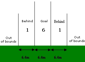 Scoring in Aussie Rules. Self made with MS Paint